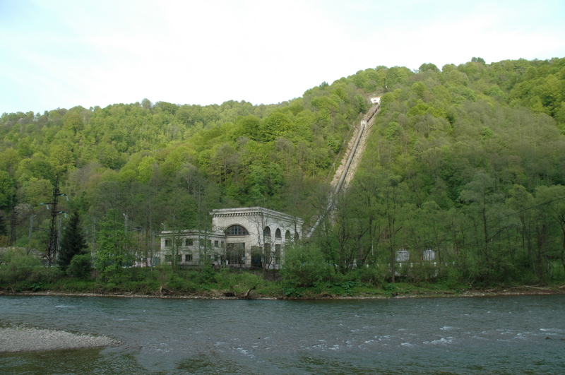 Hydroelectric power station on the Rika river (Transcarpathian region, Ukraine)